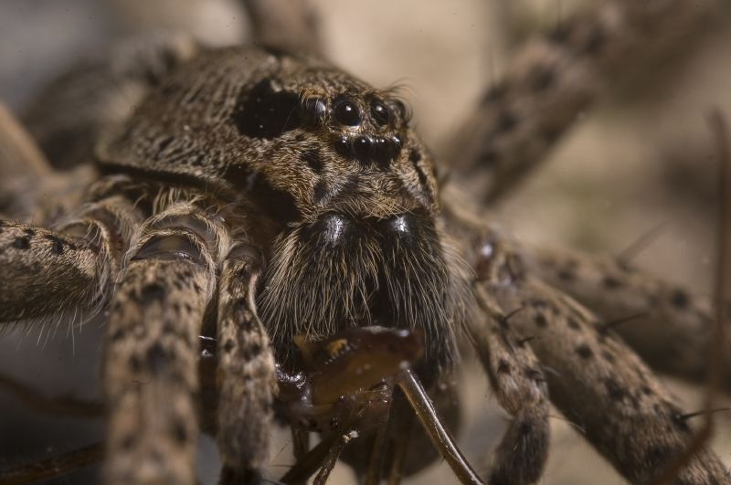 Water Spider Dolomedes III, female, New Zealand.